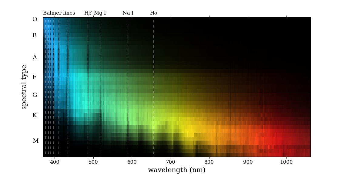 Spectra for dwarfs (luminosity class V) for standard spectral types taken from Pickles (1998).[1] Each row corresponds to one spectrum and the intensity to the brightness at that wavelength, ranging mostly over the optical. Created myself using the data from the paper and Matplotlib.